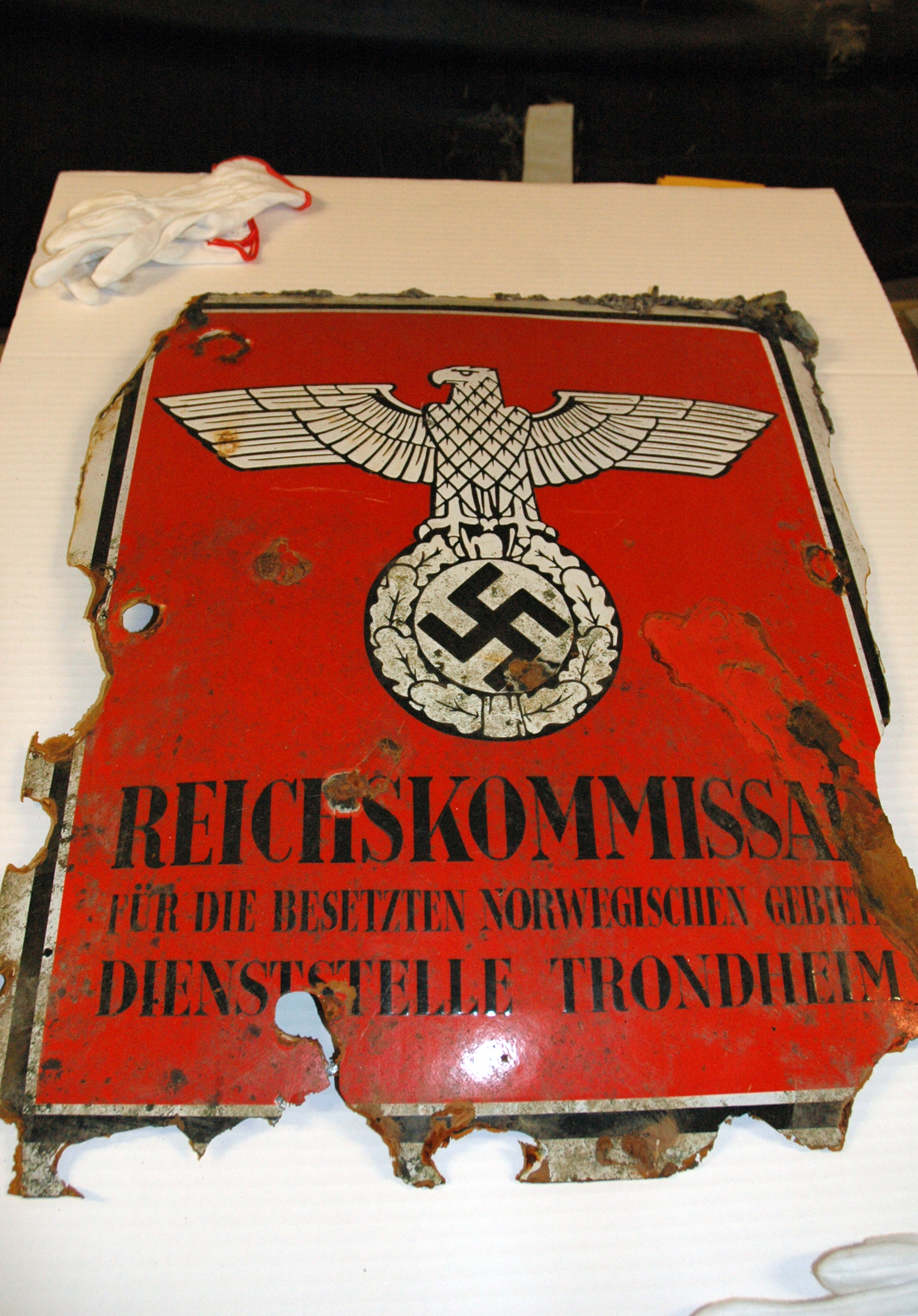 On the 7th of December, 2009, a sign was recovered from Nidelva, Trondheim. It read ”Reichskommissar für die besetzten Norwegischen Gebiete Dienstelle Trondheim", which translates to "Reich Commissariat for the Norwegian occupied areas, Trondheim service area". The sign was discovered by team of marine archeologists at NTNU University Museum; led by David Tuddenham, lead diver Trond Aurmo, and rescue diver Rasmus Svennson. The sign was most likely hung at Stiftsgården, at the office of Trondheim's Reich Commissariat.